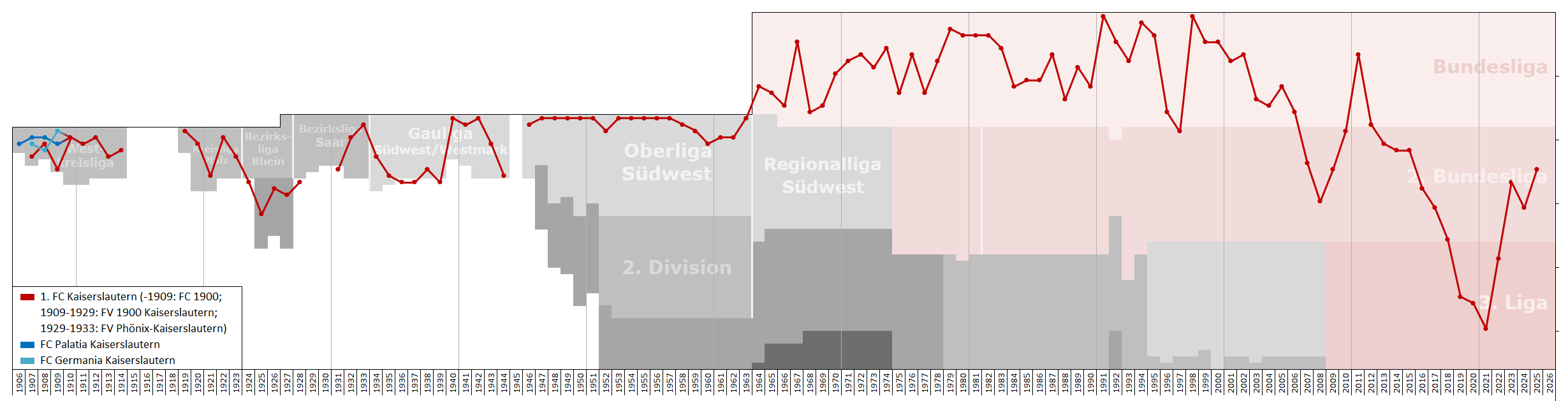 Chart of end-season table positions of 1. FC Kaiserslautern in the football league system of Germany. Data source: RSSSF, wikipedia, f-archiv.de, fussball.de